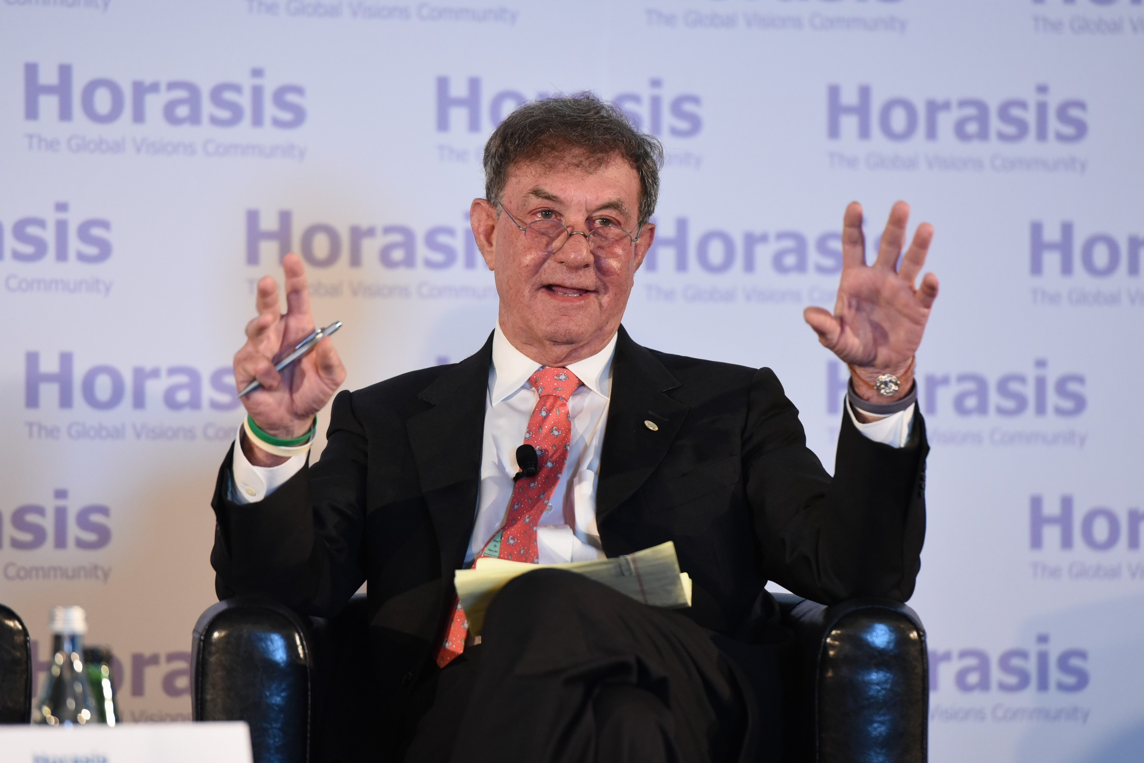 Horasis Global Meeting 2017, Cascais, Portugal, 27-30 May